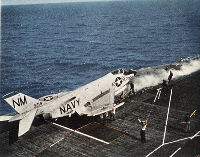 U.S. Navy McDonnell F3H-2 Demon (BuNo 135214) from Fighter Squadron 193 (VF-193) "Ghost Riders" is launched from the aircraft carrier USS Bon Homme Richard (CVA-31). VF-193 was assigned to Carrier Air Group 19 (CVG-19) aboard Bon Homme Richard for a deployment to the Western Pacific from 1 November 1958 to 19 June 1959.